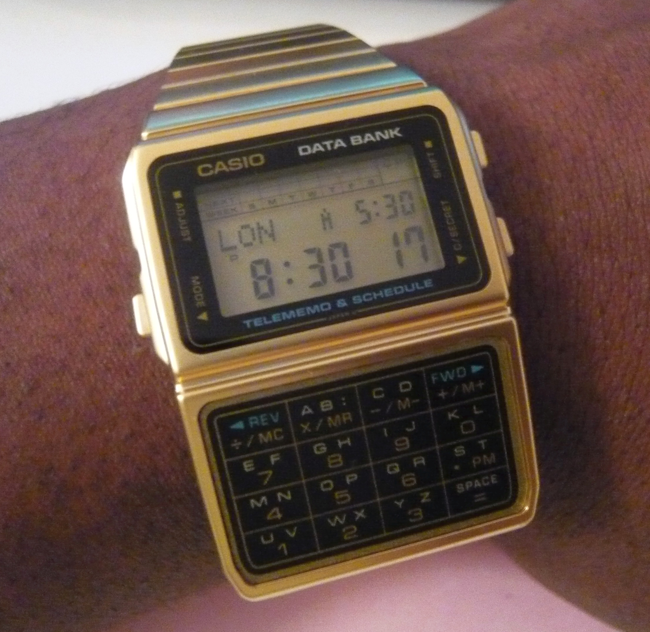 Casio Data Bank Watch (gold plated steel band, telememo)